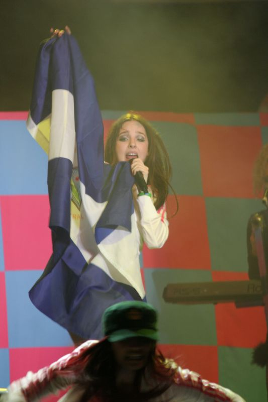 Belinda in Nicaragua.